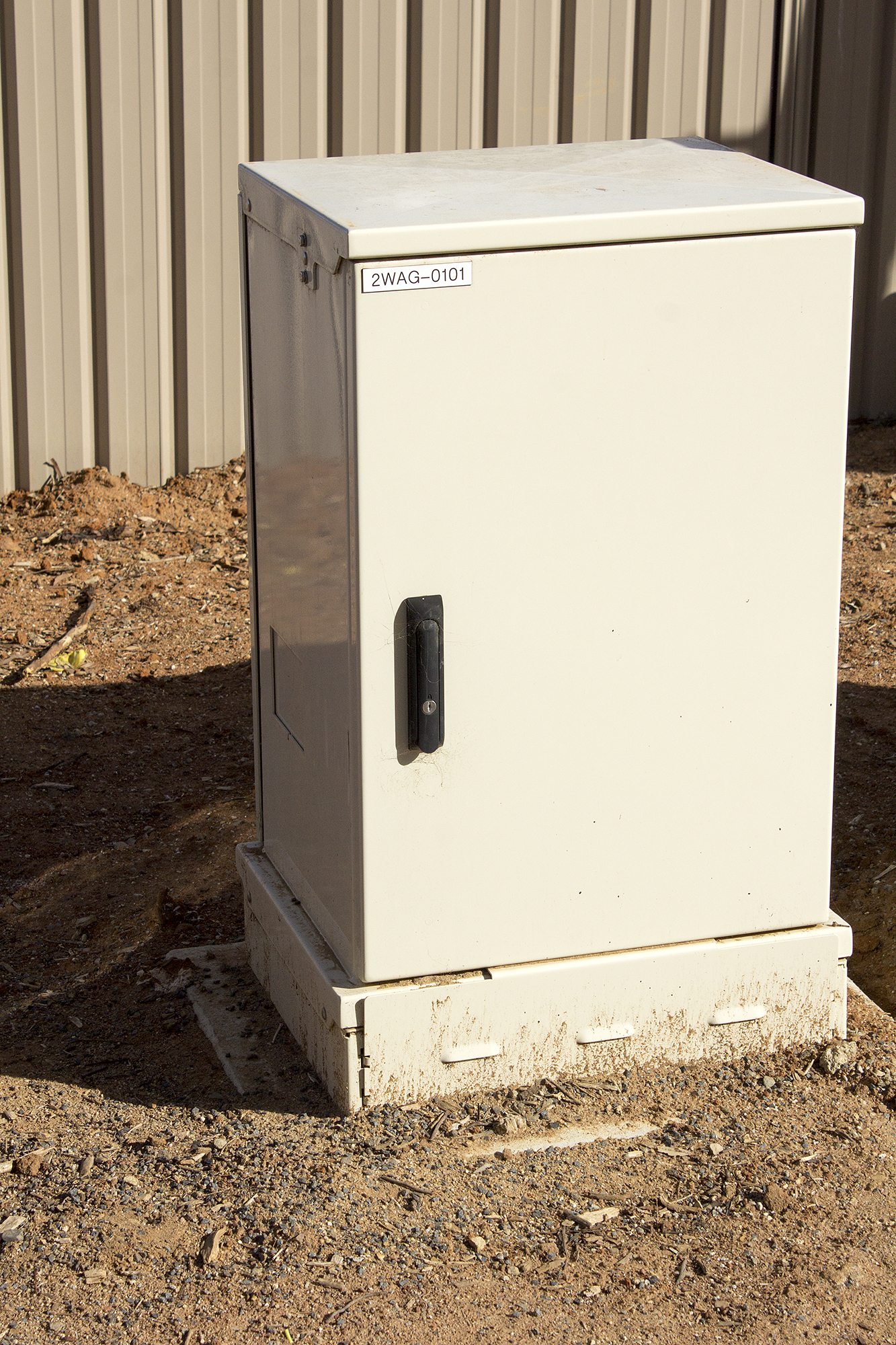 NBN Fibre Distribution Hub (FDH) located in Boorooma.